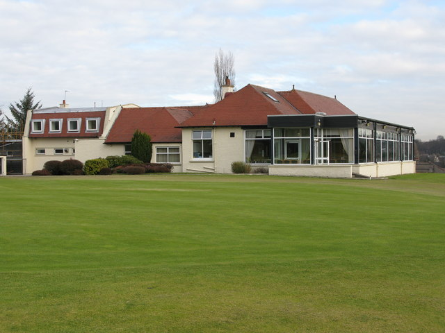 Sandyhills Golf Club - Clubhouse The course was founded in 1905 on the lands of Sandyhills, Shettleston. The clubhouse and the course were officially opened on Saturday 5th May 1906.